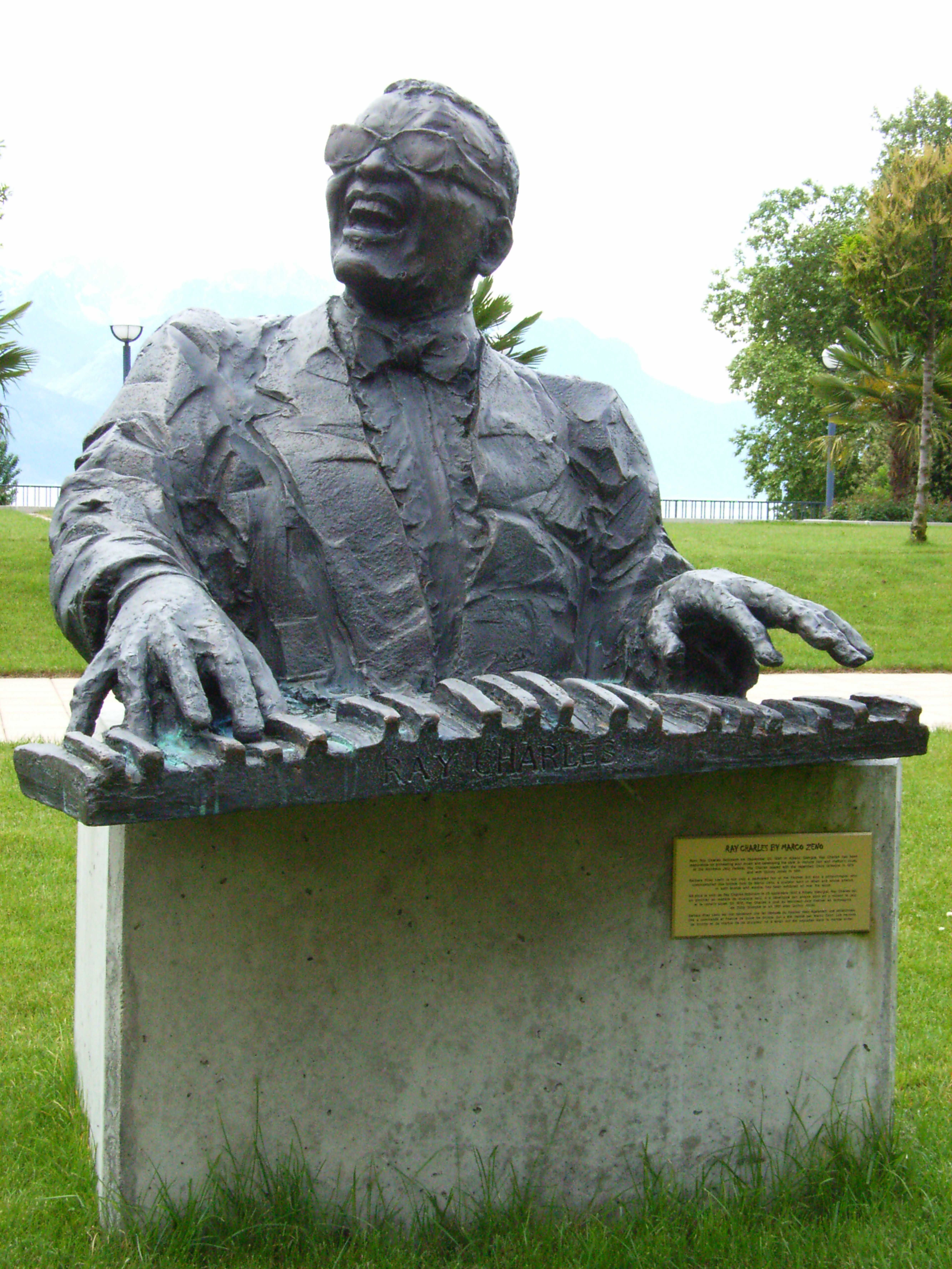 Ray Charles monument (Montreux, Switzerland)